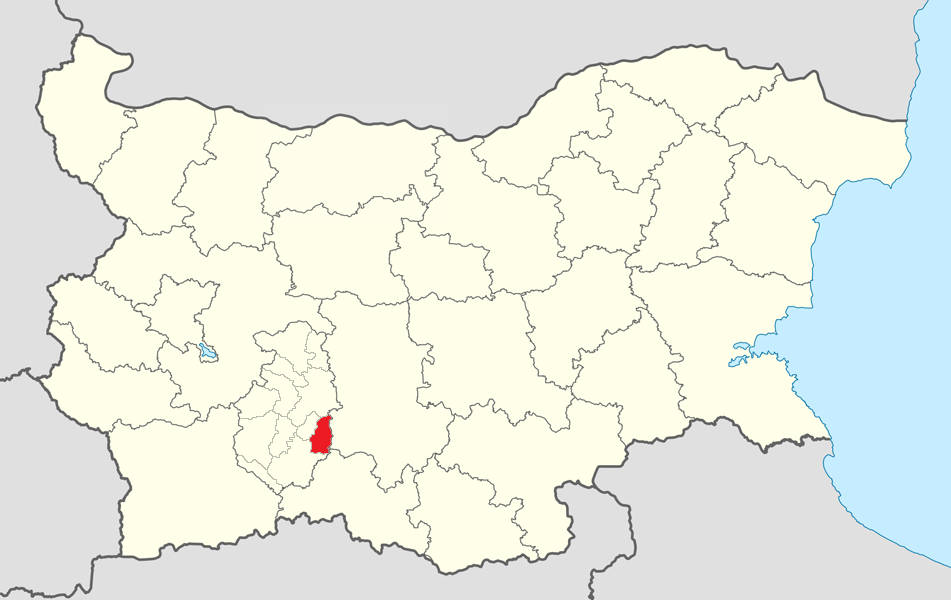 Location map of Bratsigovo Municipality within Bulgaria and Pazardzik province